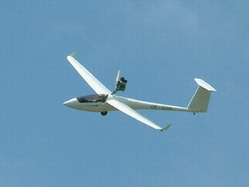 Aircraft inflight with self launch engine deployed.